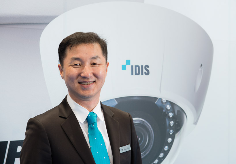 Dr. Y.D. Kim is the CEO of IDIS Holdings, Ltd. and founder of IDIS Co. Ltd.